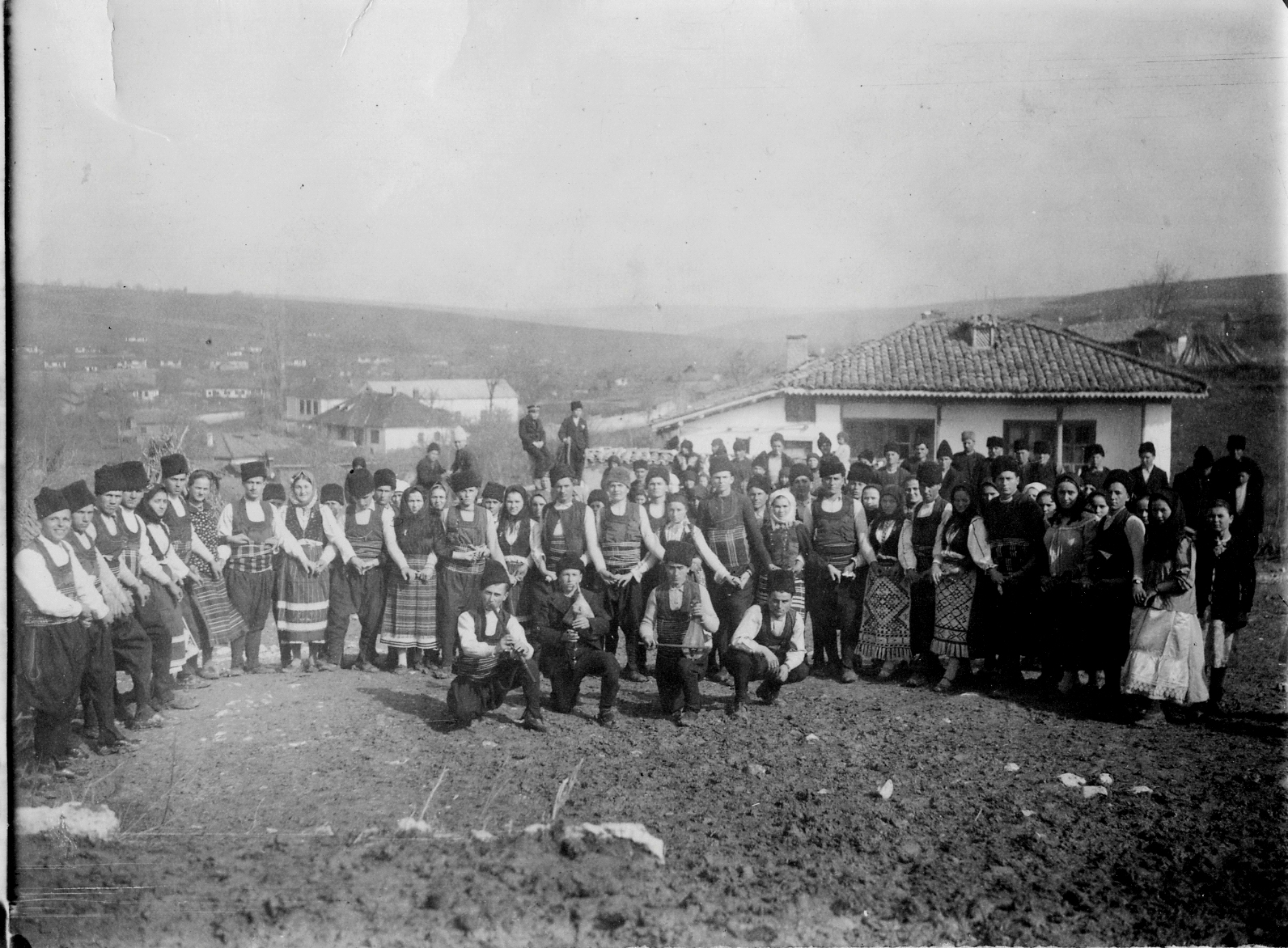 V. Kaynardzha, Silistra Province, Bulgaria - April 1941